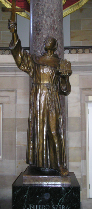 Junipero Serra OFM in the National Statuary Hall in the United States Capitol, Washington DC, sculptor Ettore Cadorin, 1931